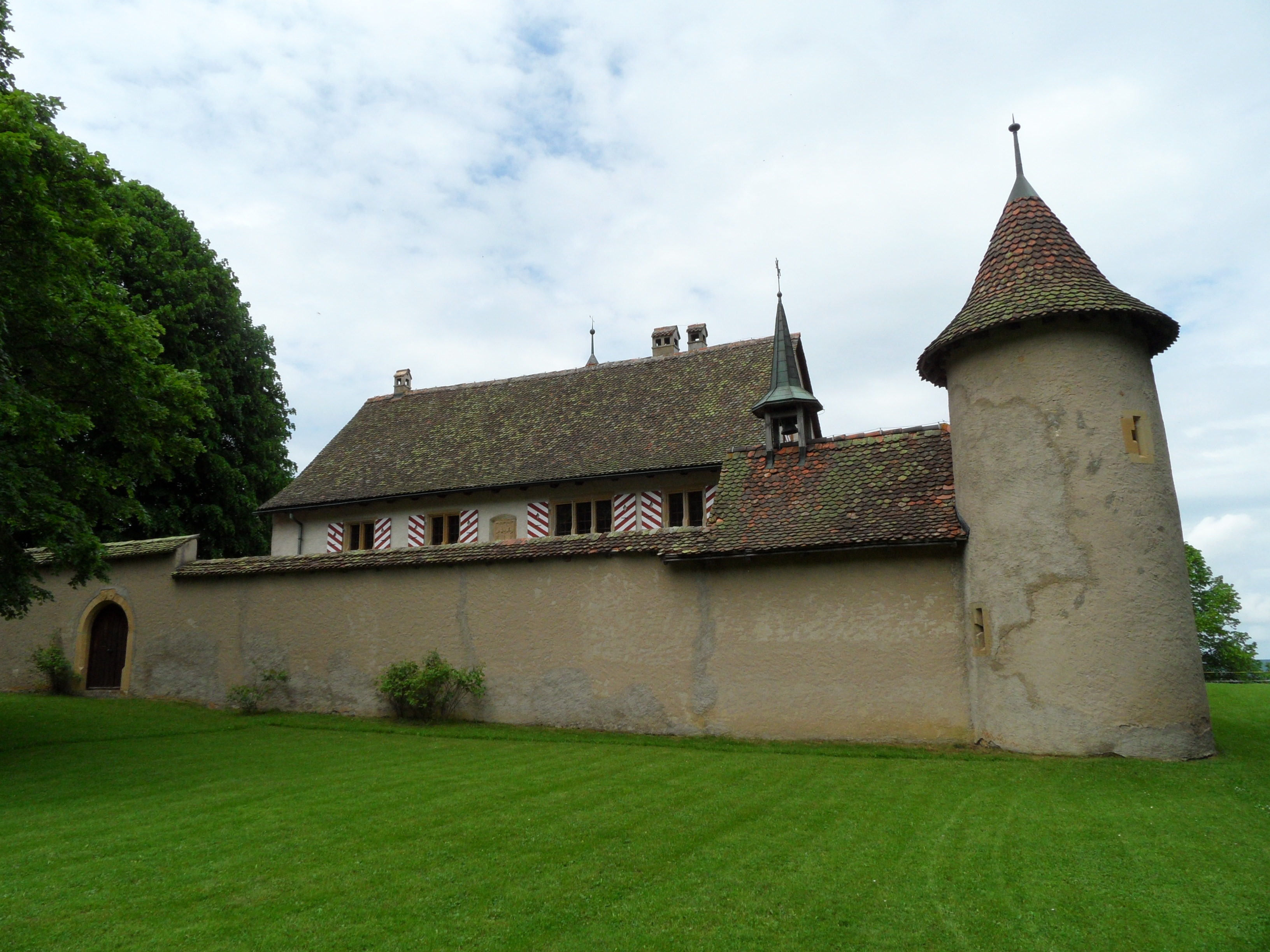 Raymontpierre Castle in Vermes, Canton of Jura, Switzerland.